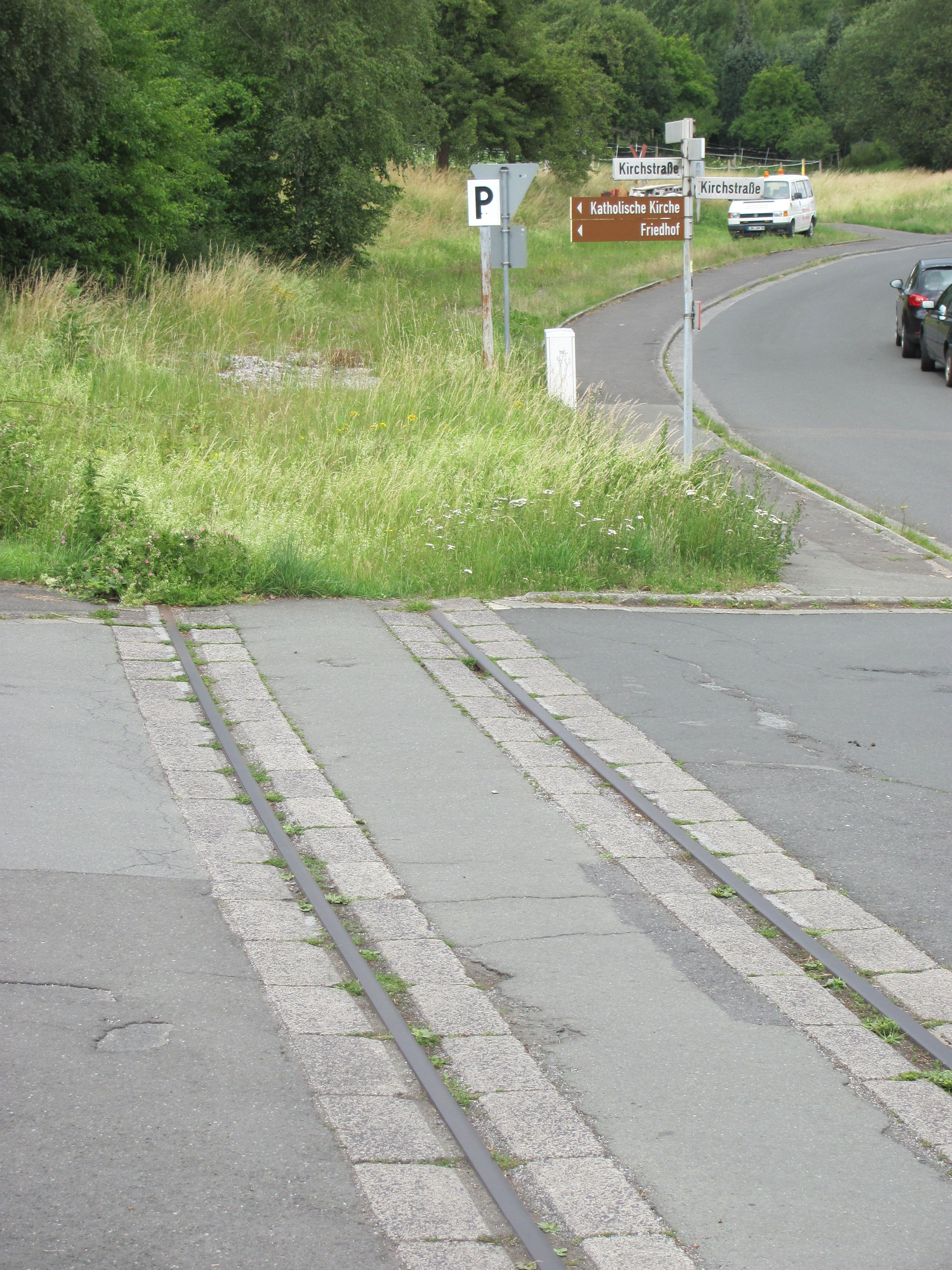 ex level crossing Breitscheid, Hessen, Germany